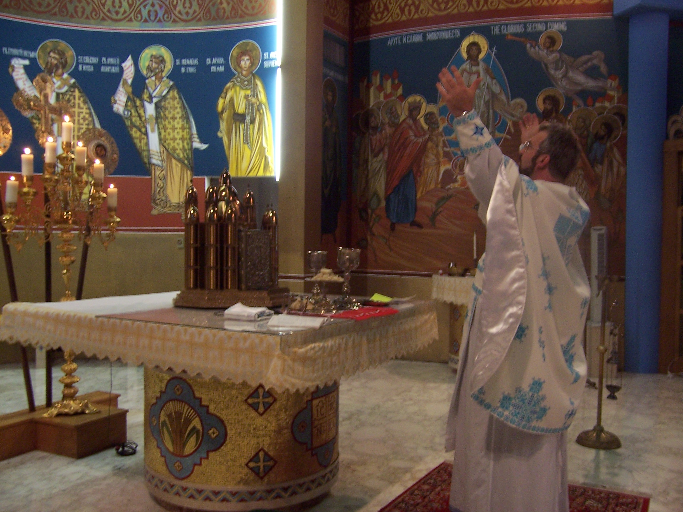 A byzantine liturgy underway at st joseph Ukrainian catholic church, Chicago by father pavlo hayda